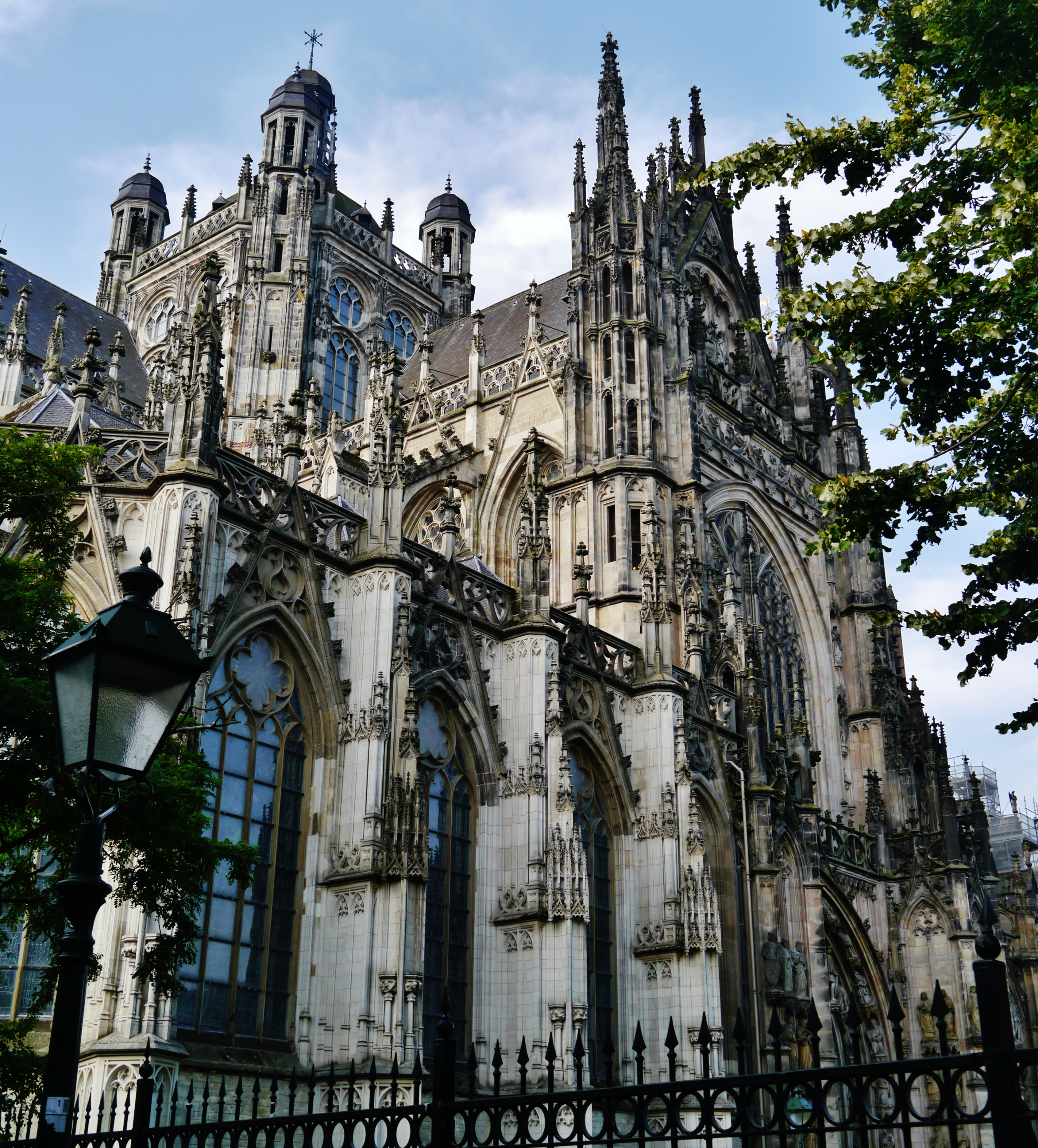 Cathedral St. John, 's-Hertogenbosch, Province of North Brabant, Netherlands